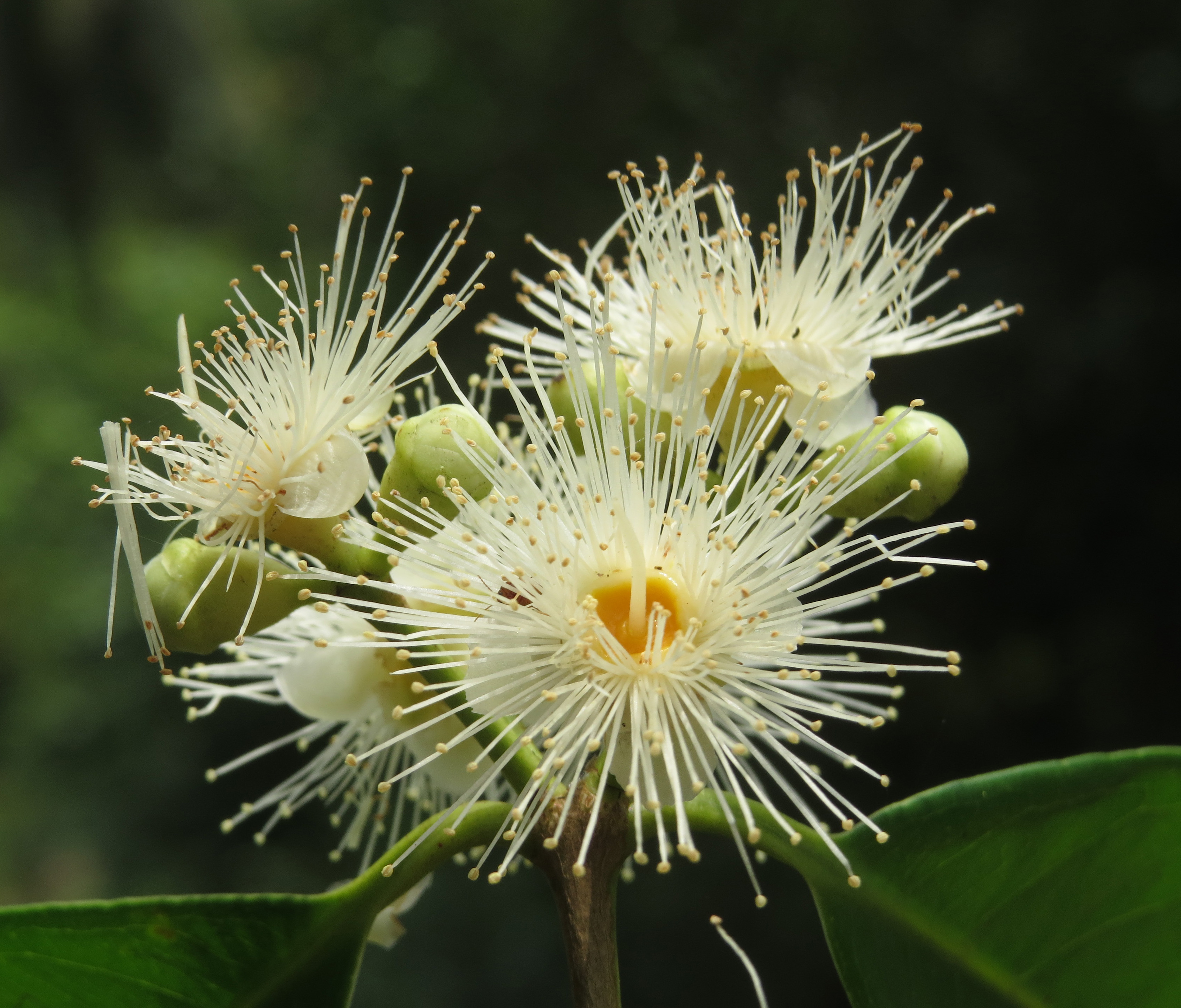 Syzygium hemisphericum